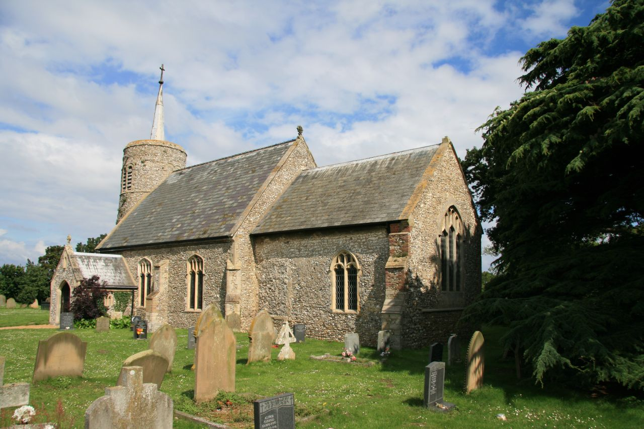 St Mary's church, Titchwell, Norfolk, England. It is a Church of England church.